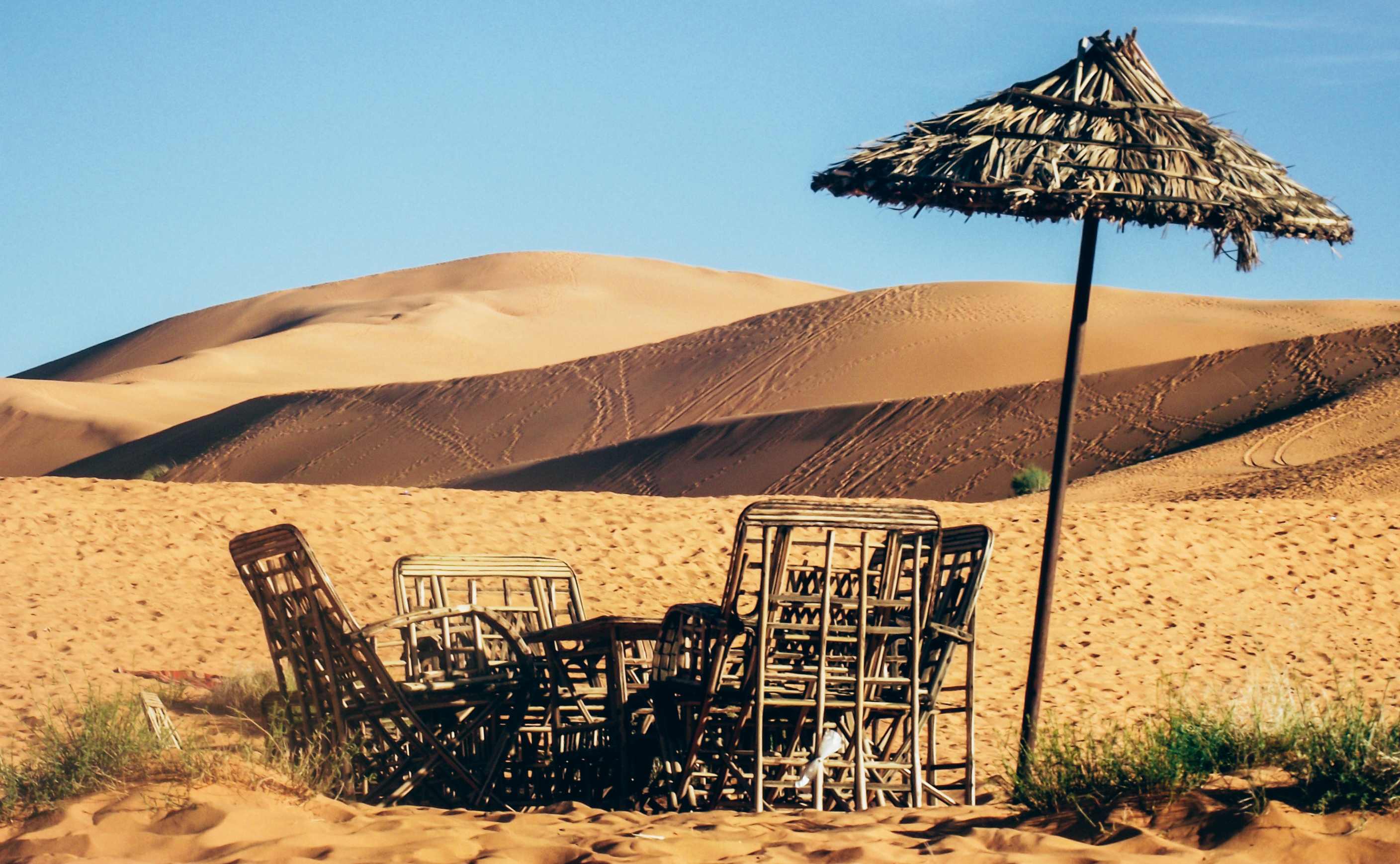 Taghit, the little oasis located in the southof Bechar are widely known of its beautiful views, espicially those golden dunes that surround it